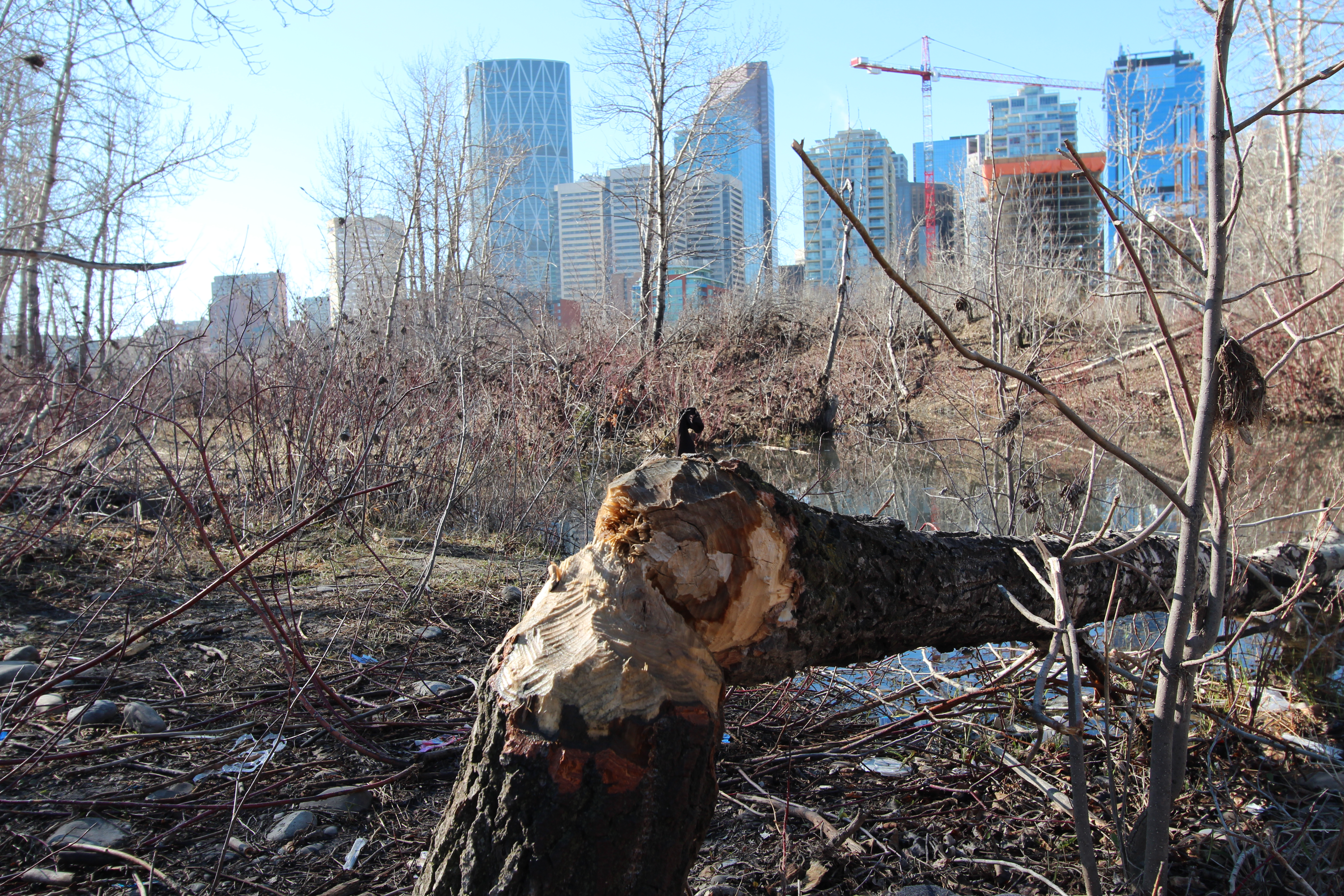 The east end of the park was hit hard in the floods, the wild life seem to like it.The beavers have been busy felling trees and building dams.